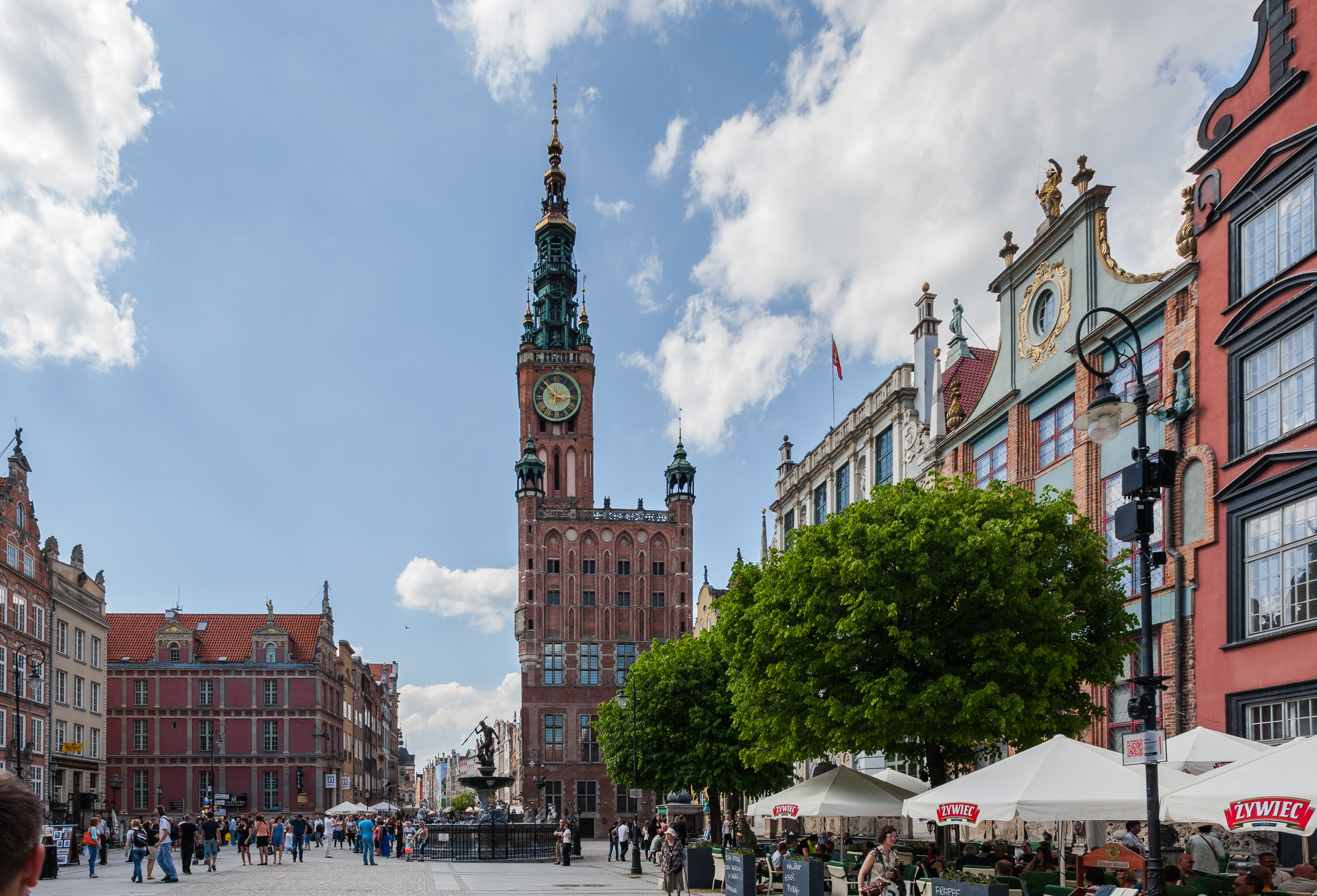 Main Town Hall, Gdansk, Poland